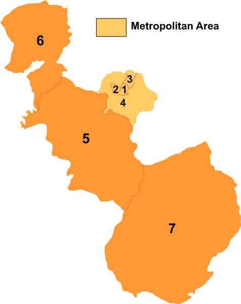 Map of Anshan in Liaoning province